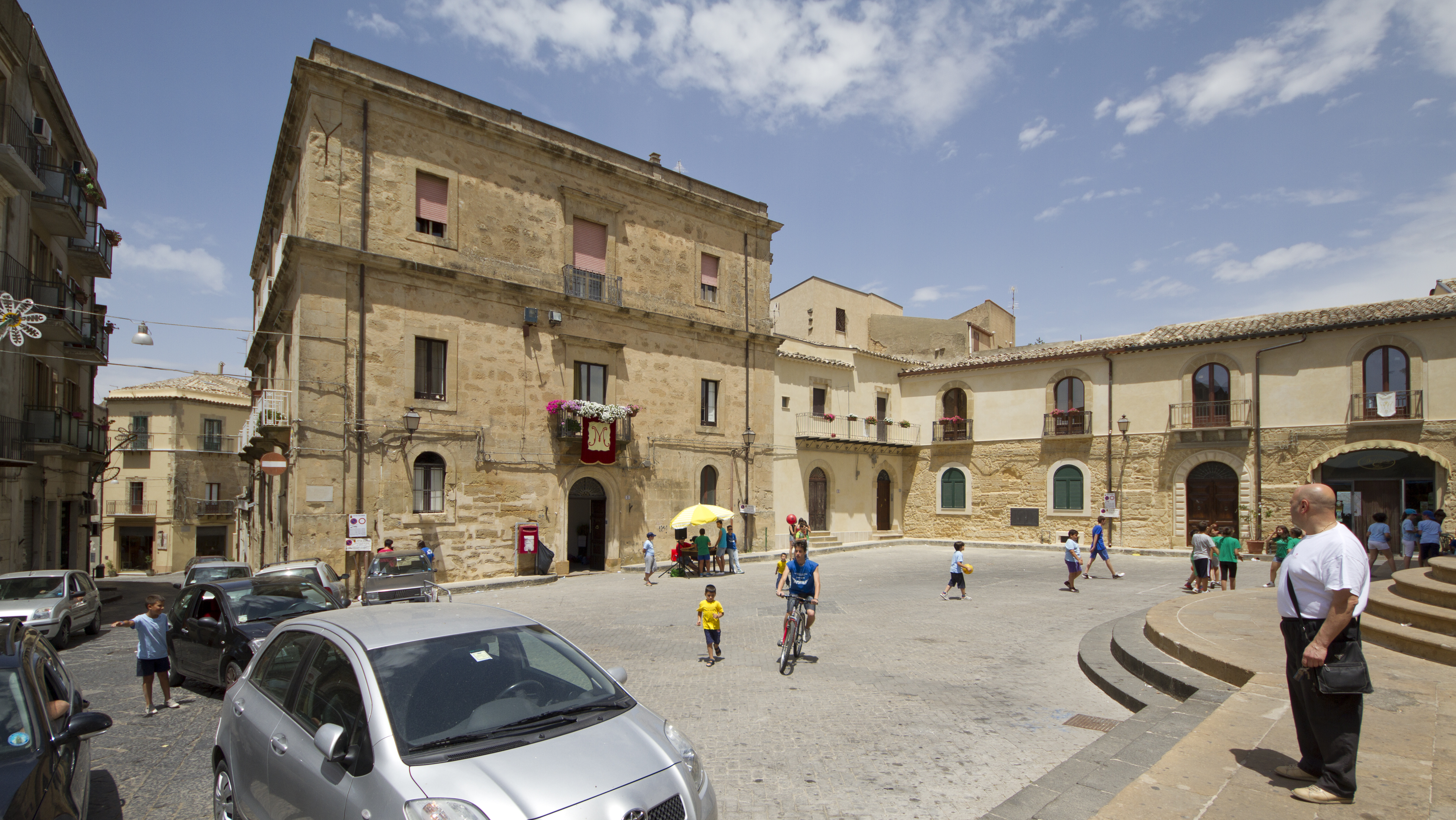 94100 Enna, Province of Enna, Italy